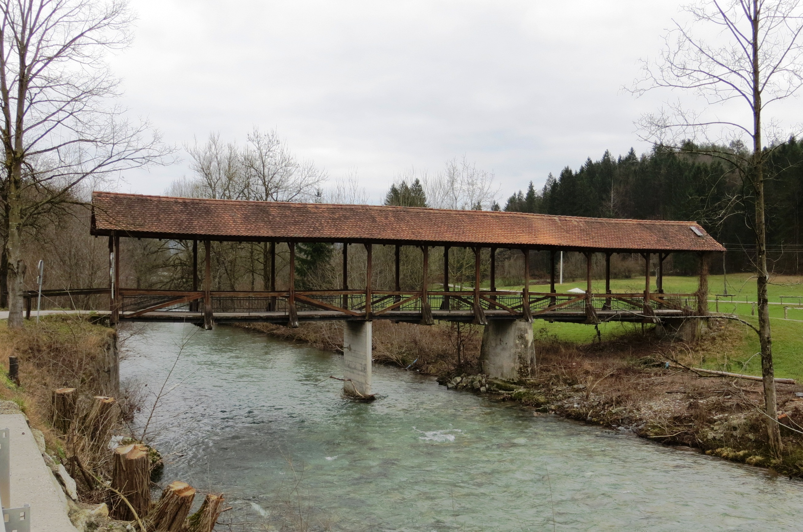 Wooden bridge across the Poljane Sora River in Hotavlje, Municipality of Gorenja Vas–Poljane, Slovenia. Built in the mid-19th century.